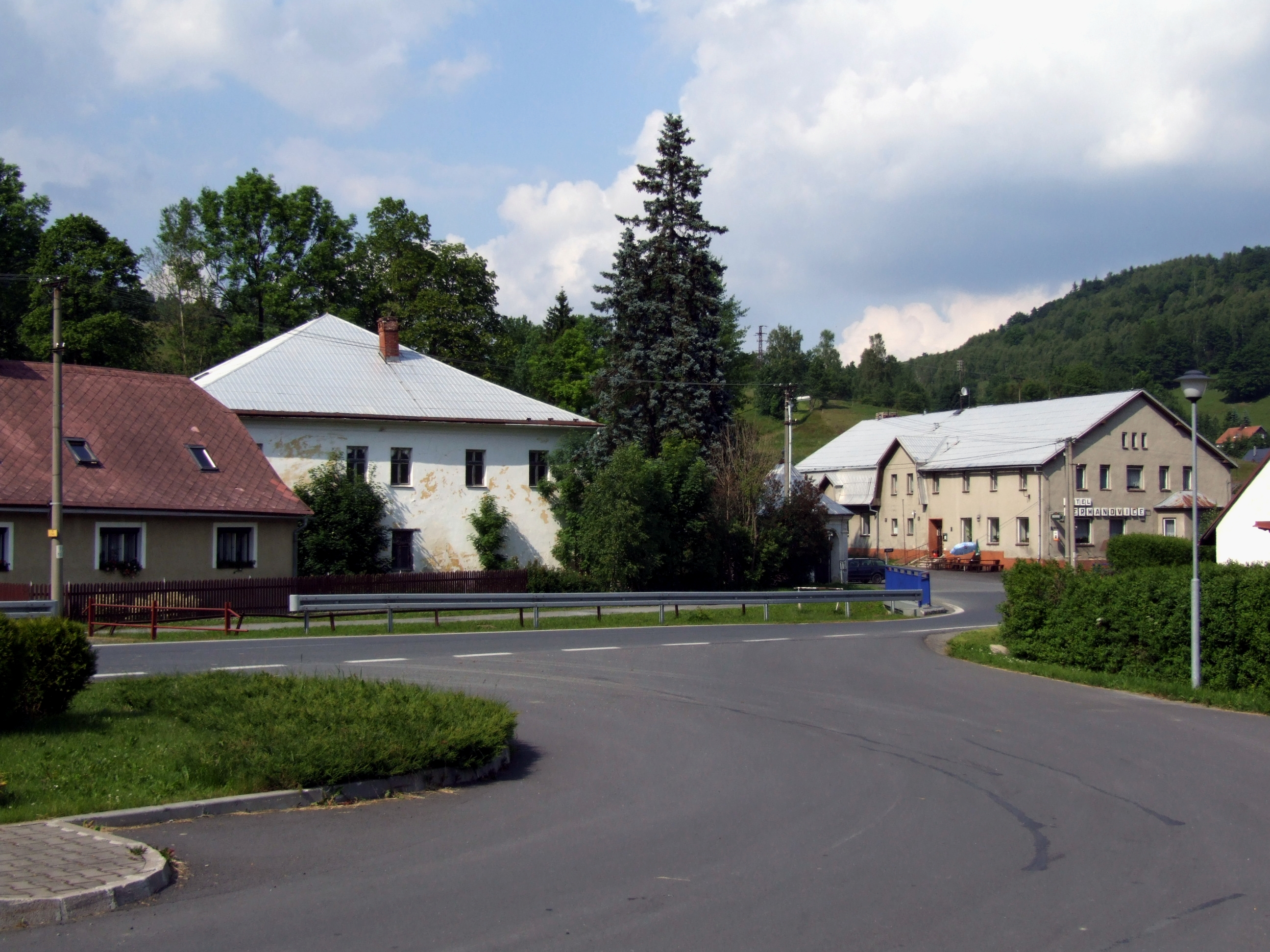 Heřmanovice (Hermannstadt) - village in the Czech Republic Ślůnski: Dźedźina Heřmanovice (Hermannstadt), Czesko Republika